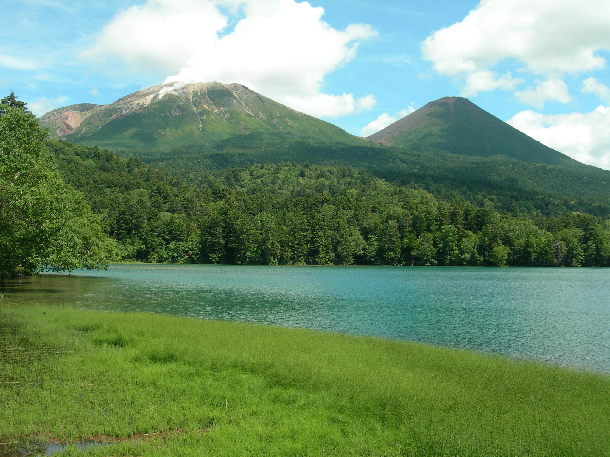 Lake Onnetō. taken in 2006.